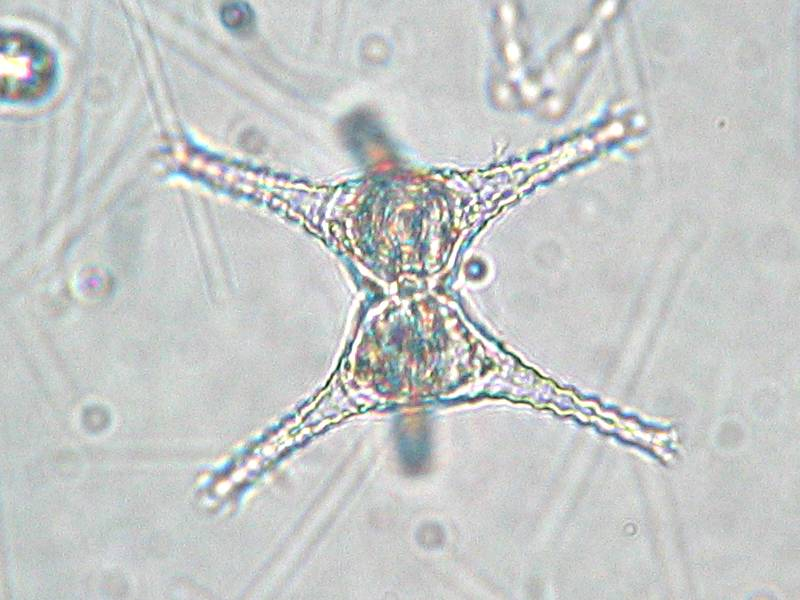 This work is free and may be used by anyone for any purpose. If you wish to use this content, you do not need to request permission as long as you follow any licensing requirements mentioned on this page.